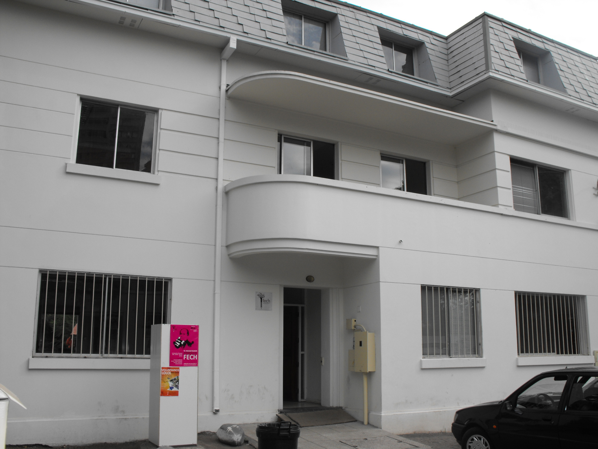 Building of Fech (Federación de Estudiantes de la Universidad de Chile; Universidad de Chile Students Federation)